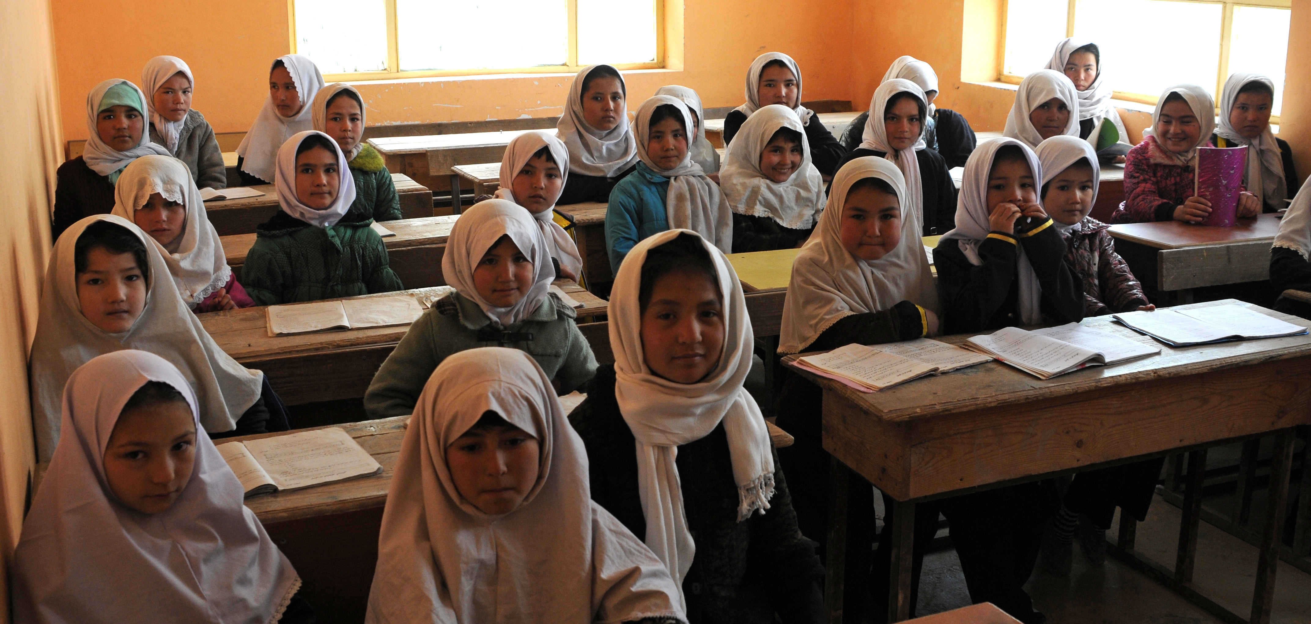 Young Afghan girls sit in their Aliabad School classroom near Mazar-e-Sharif, Afghanistan, March 10, 2012. Their new school, a project started by the 1st Brigade, 10th Mountain Division and continued by the 170th and 37th Infantry Brigade Combat Teams, is being built next to the current school and will accommodate the current volume of students with additional room for the town's growing population. (37th IBCT photo by Sgt. Kimberly Lamb) (Released)